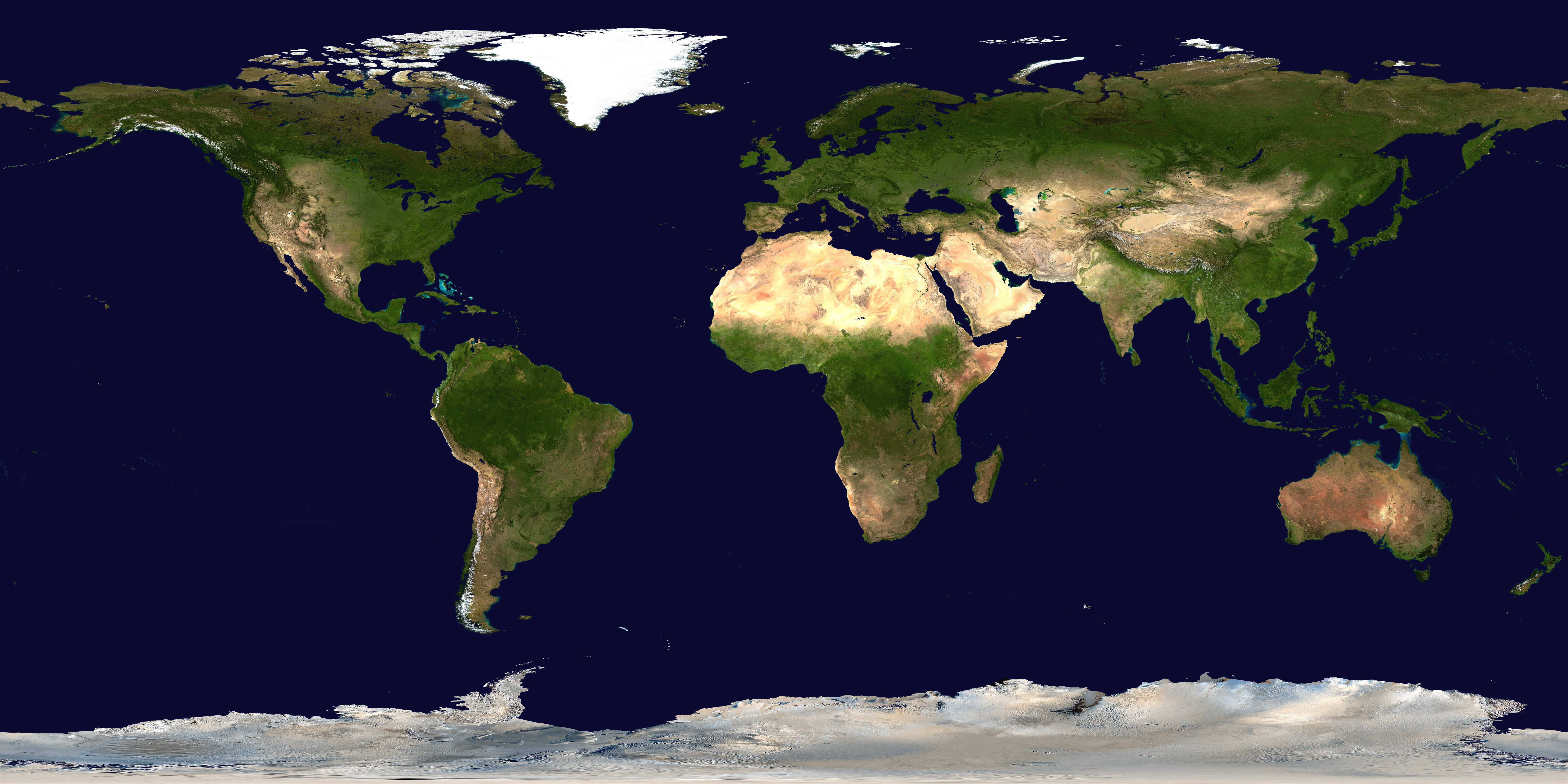 Satellite composition of the whole Earth's surface.